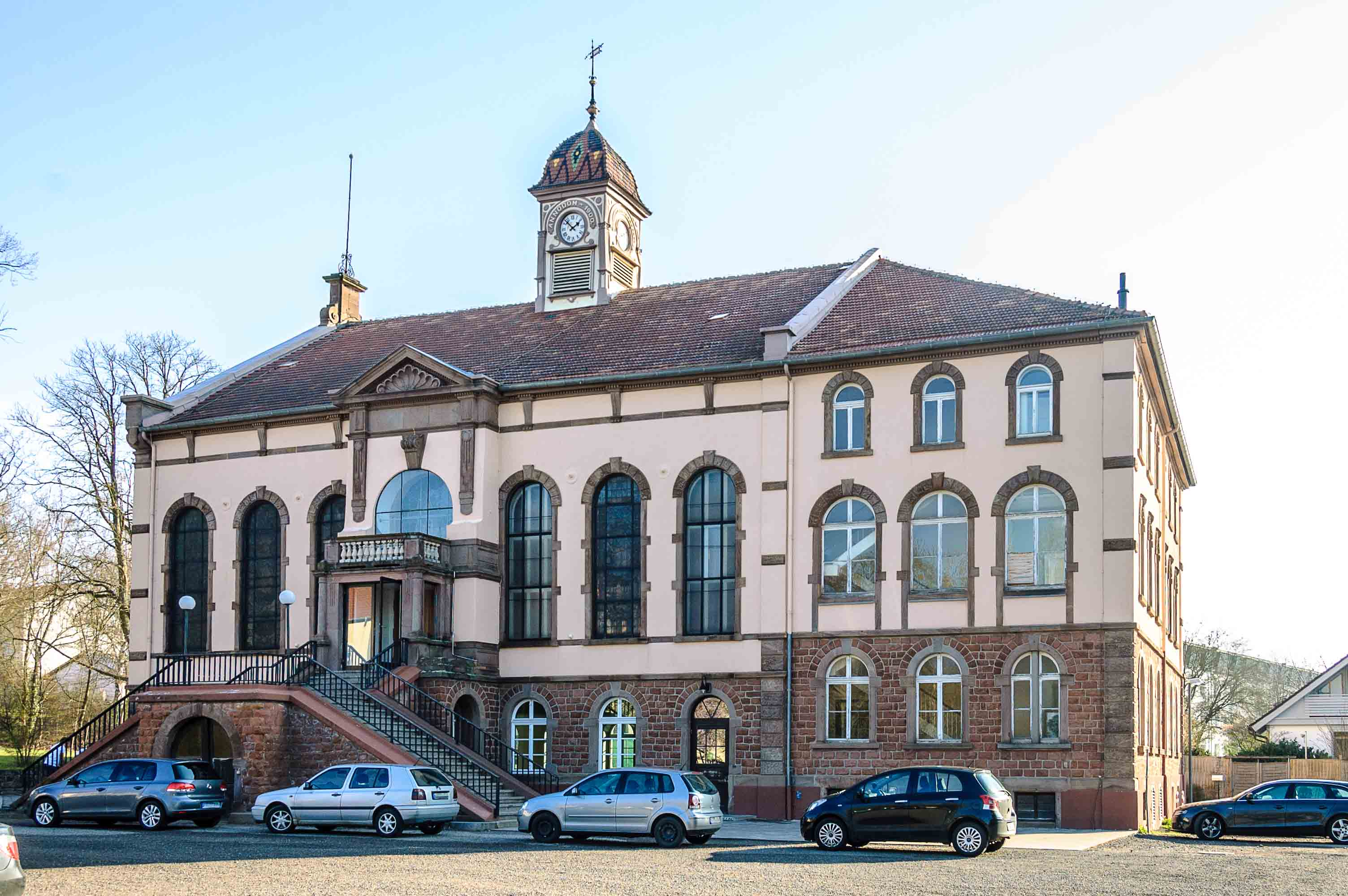 Weierhof Aula